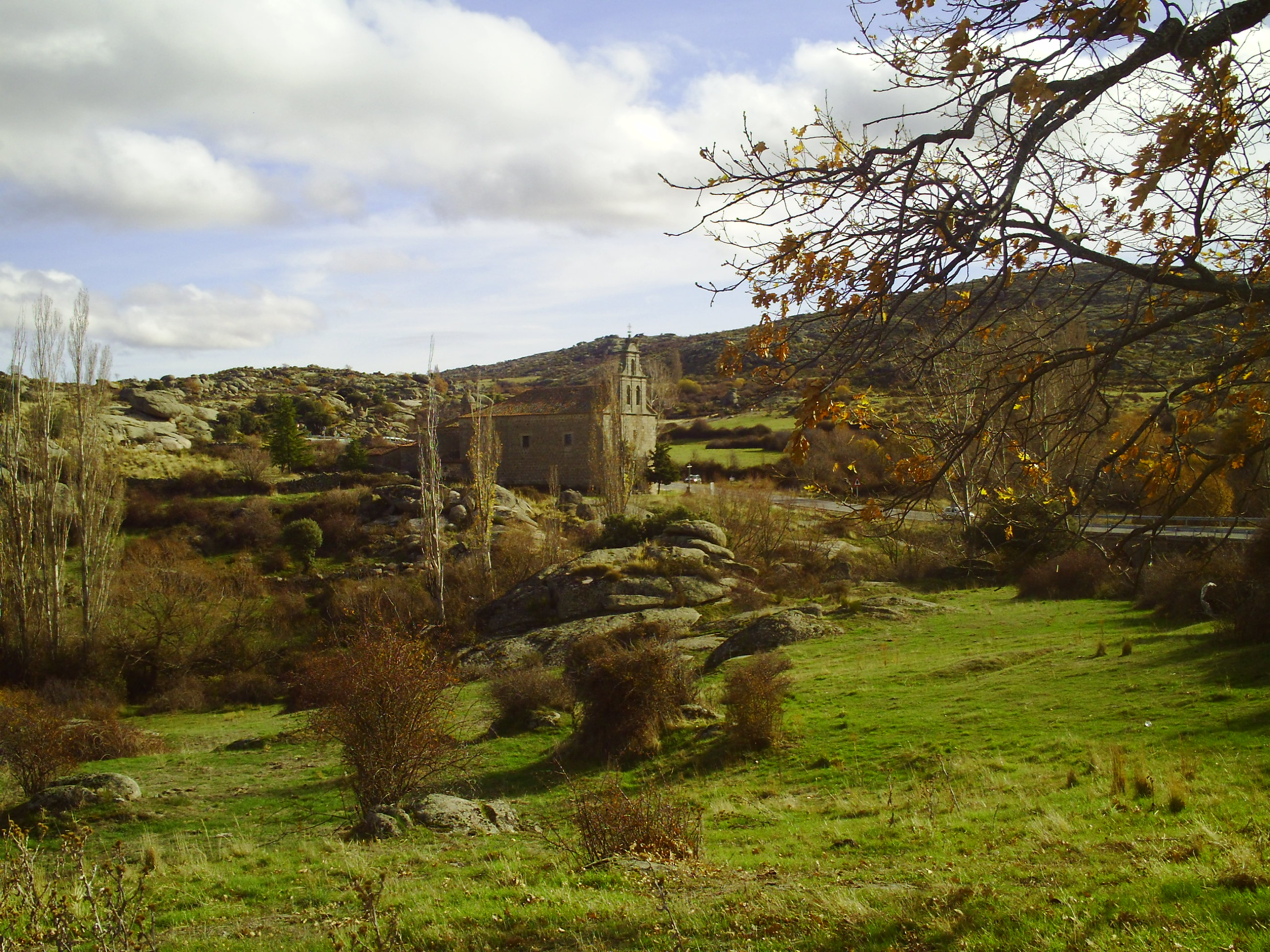 Hermitage of Our Lady of Rihondo